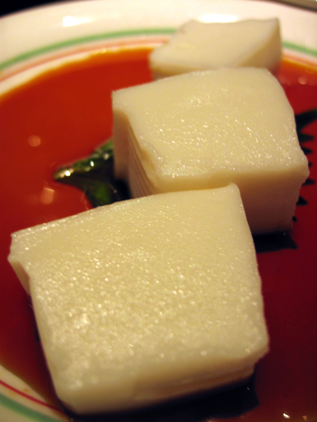 Okinawan cuisine: Peanut tofu